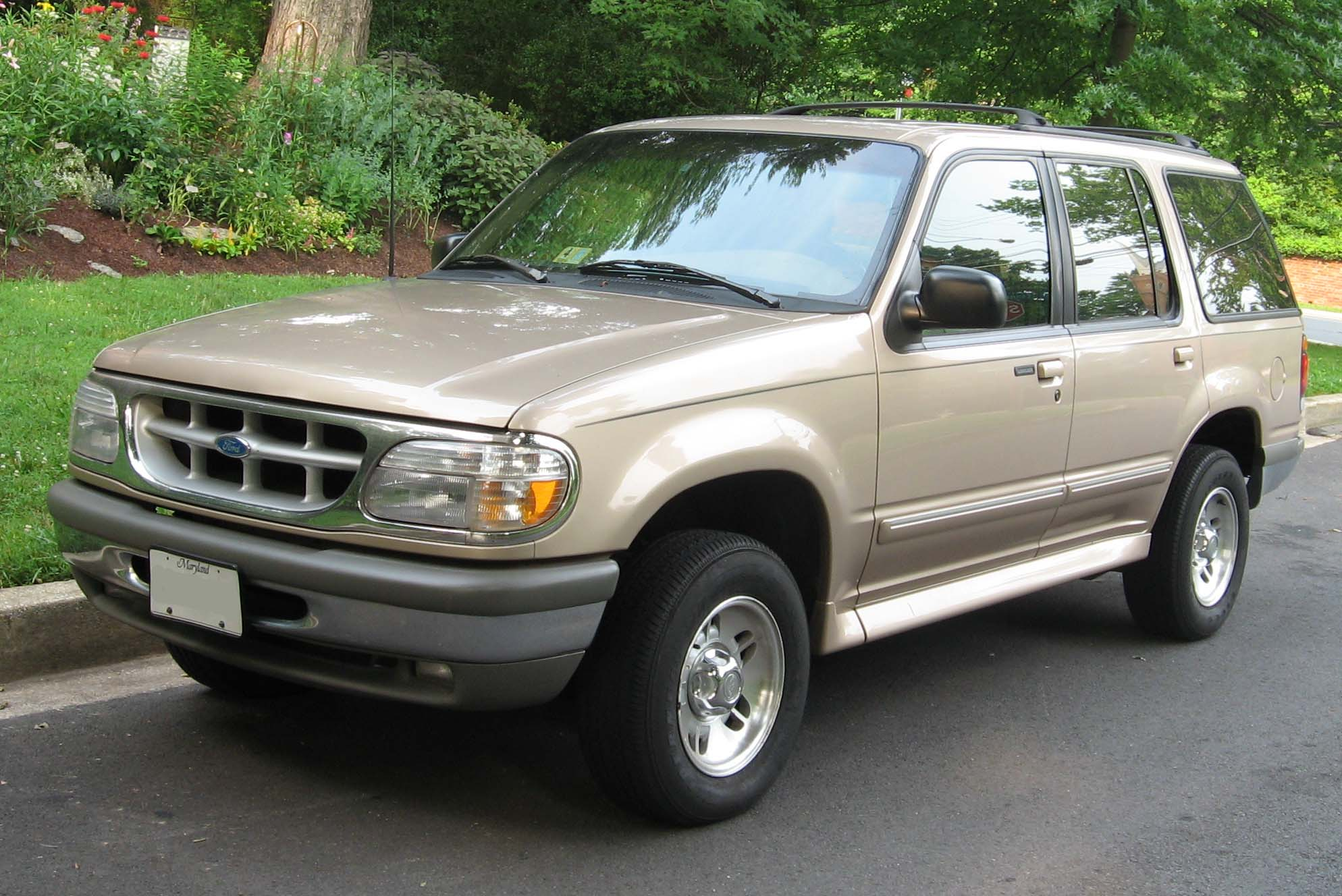 1995-1998 Ford Explorer photographed in USA.